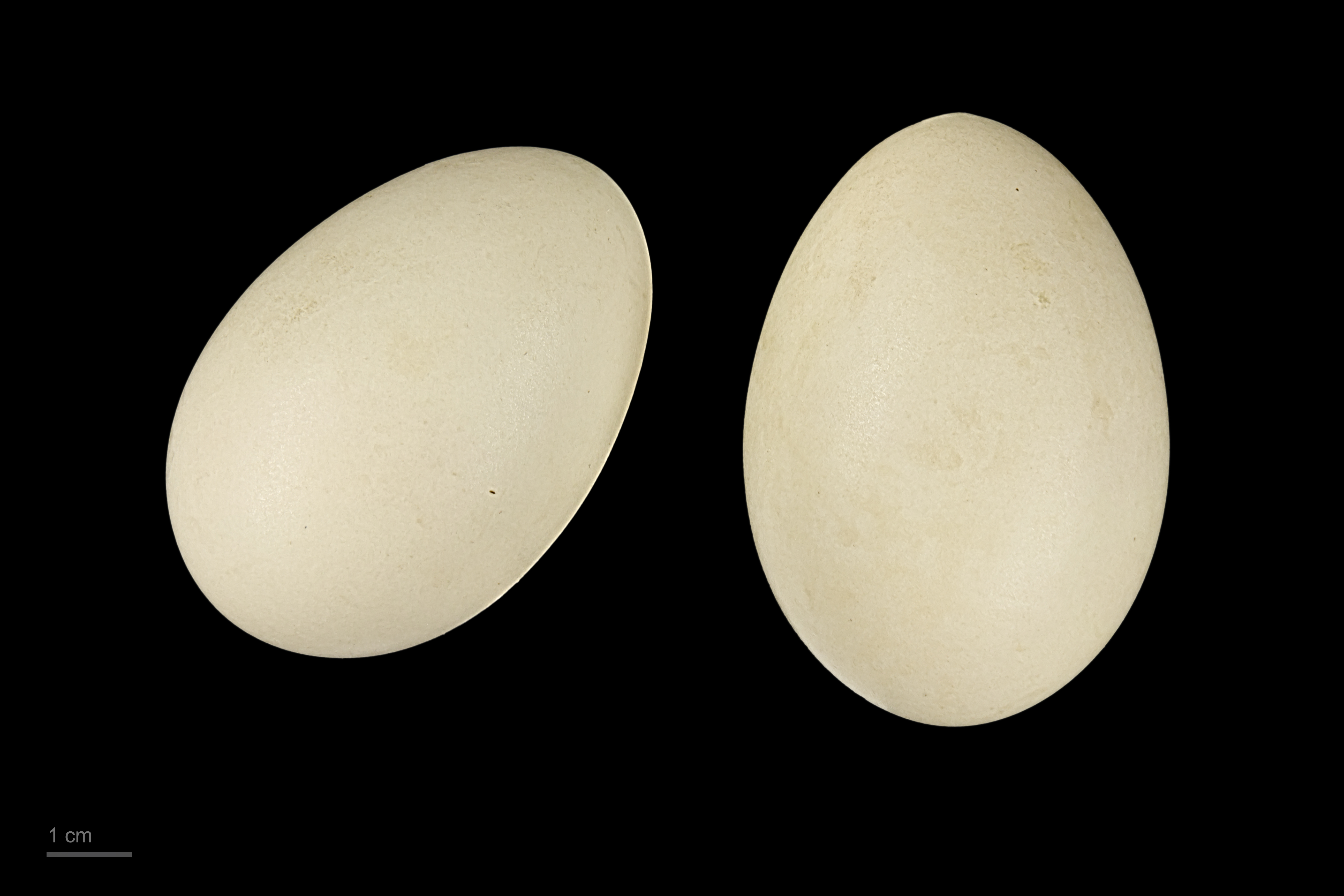 Eggs of greater scaup Two specimens of the same spawn ; collection of Jacques Perrin de Brichambaut.